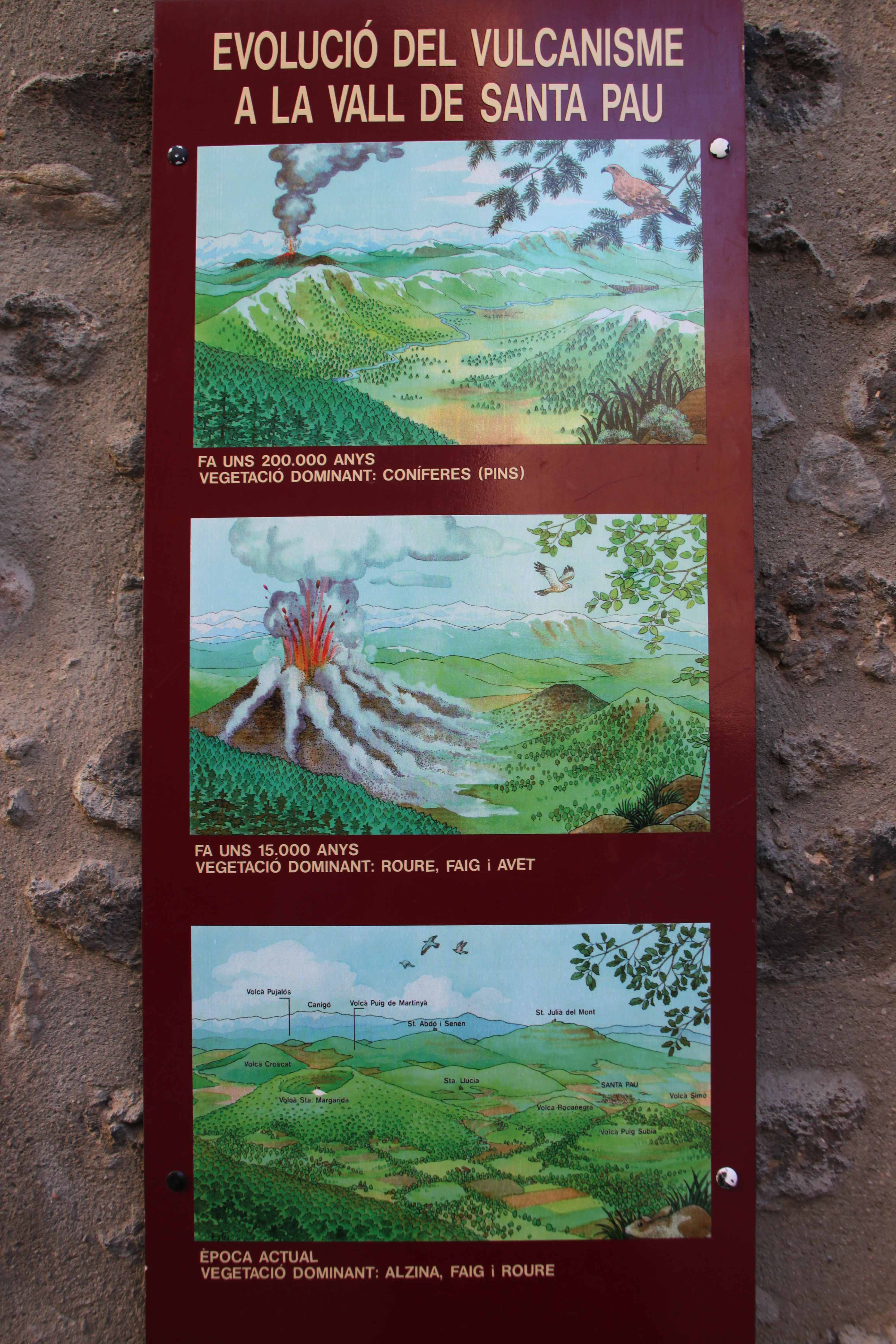 Vulcanology evolution in Santa Pau's Valley in Santa Pau, la Garrotxa, Catalonia.